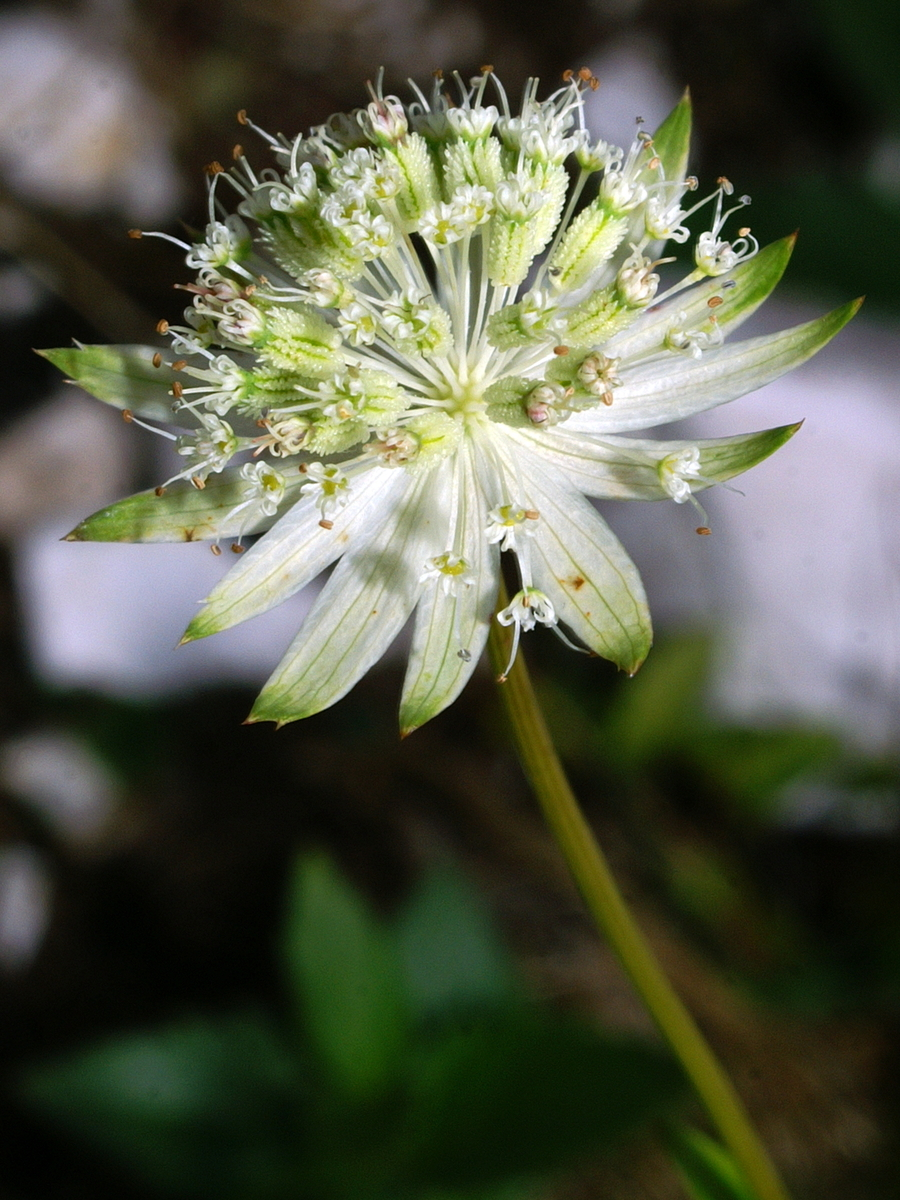 Masterwort (Astrantia bavarica) from Pod Rjavino, Slovenia